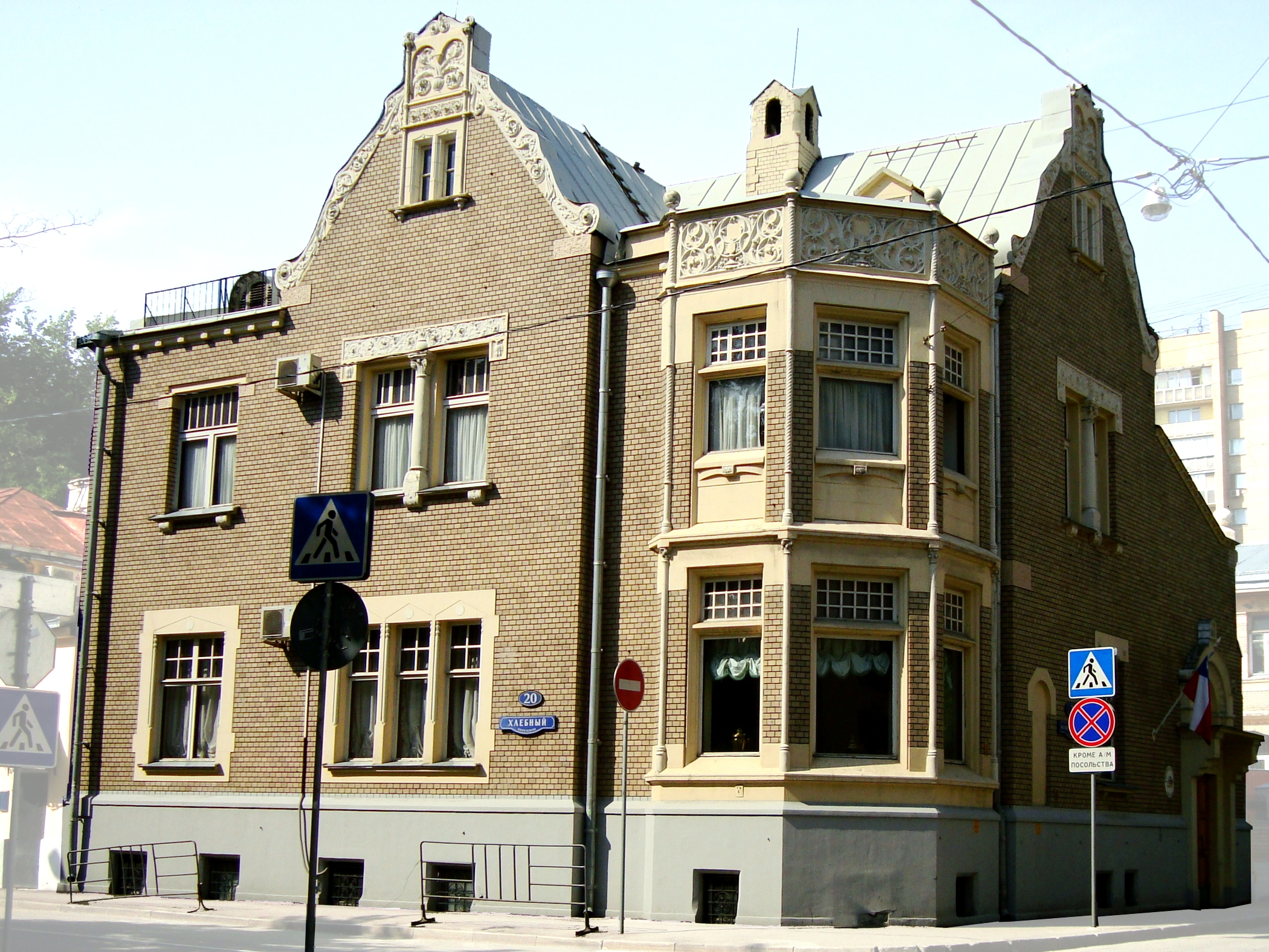 Moscow, Earth city, Khlebnyj (Bread) lane - 20, near to Povarskaia (Cook) str.